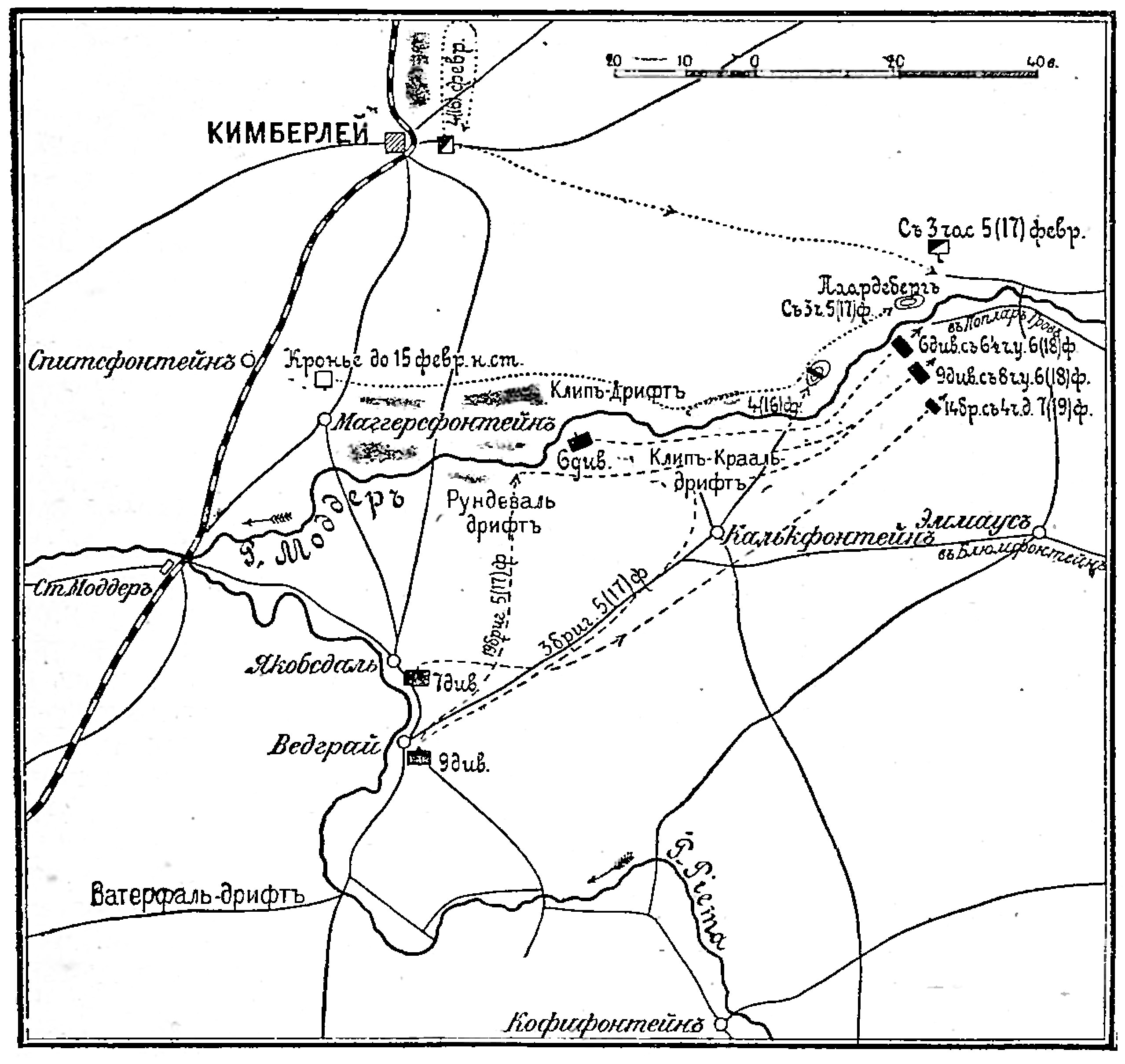 The Battle of Paardeberg or Perdeberg ("Horse Mountain") was a major battle during the Second Anglo-Boer War. It was fought near Paardeberg Drift on the banks of the Modder River in the Orange Free State near Kimberley.